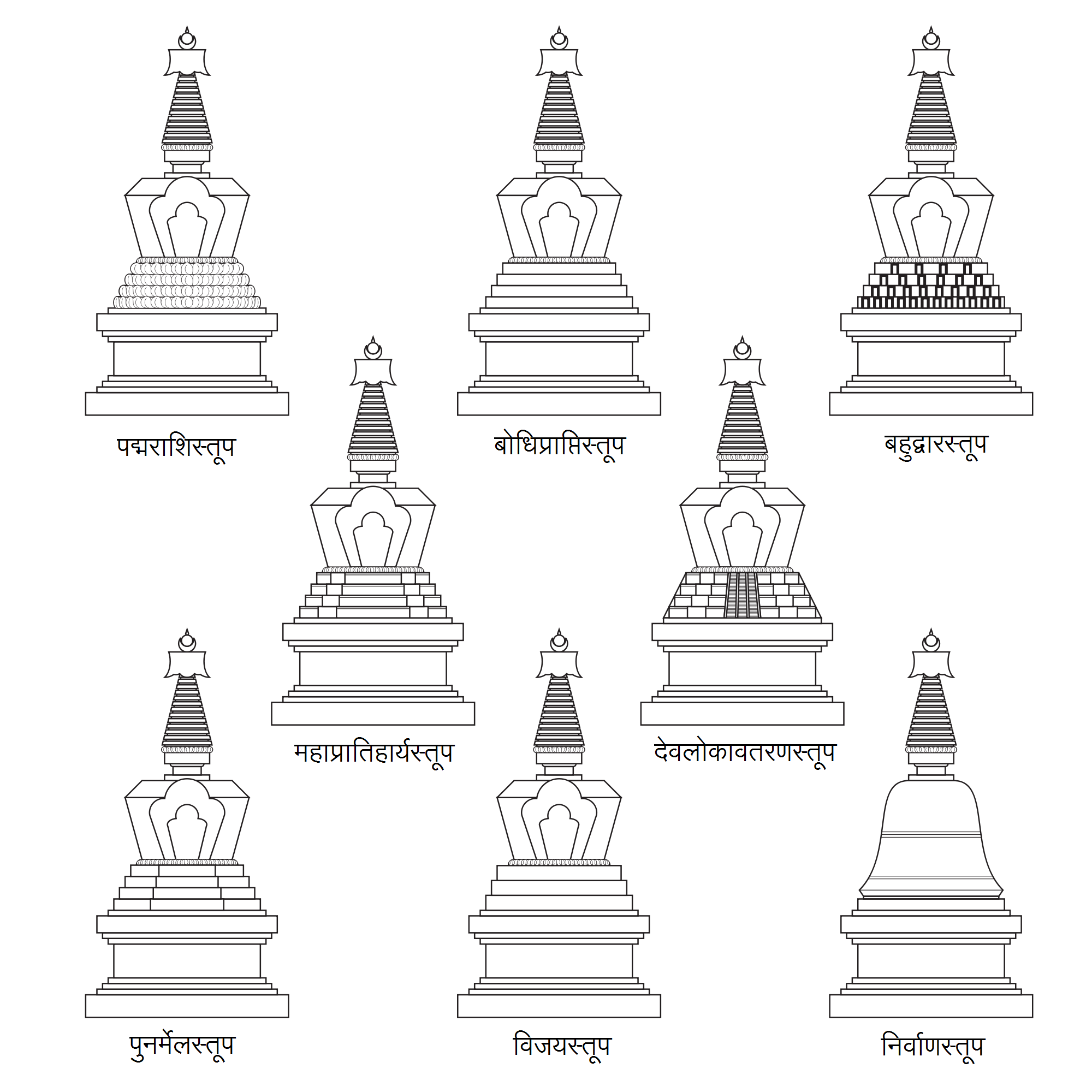 Eight Stupas of Tathagata